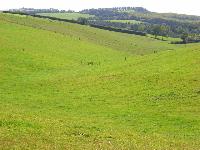 Burnt Bottom A dry valley descending to the upper reaches of the Hooke valley. Beyond that is Warren Hill and the woodland of Hooke Park.